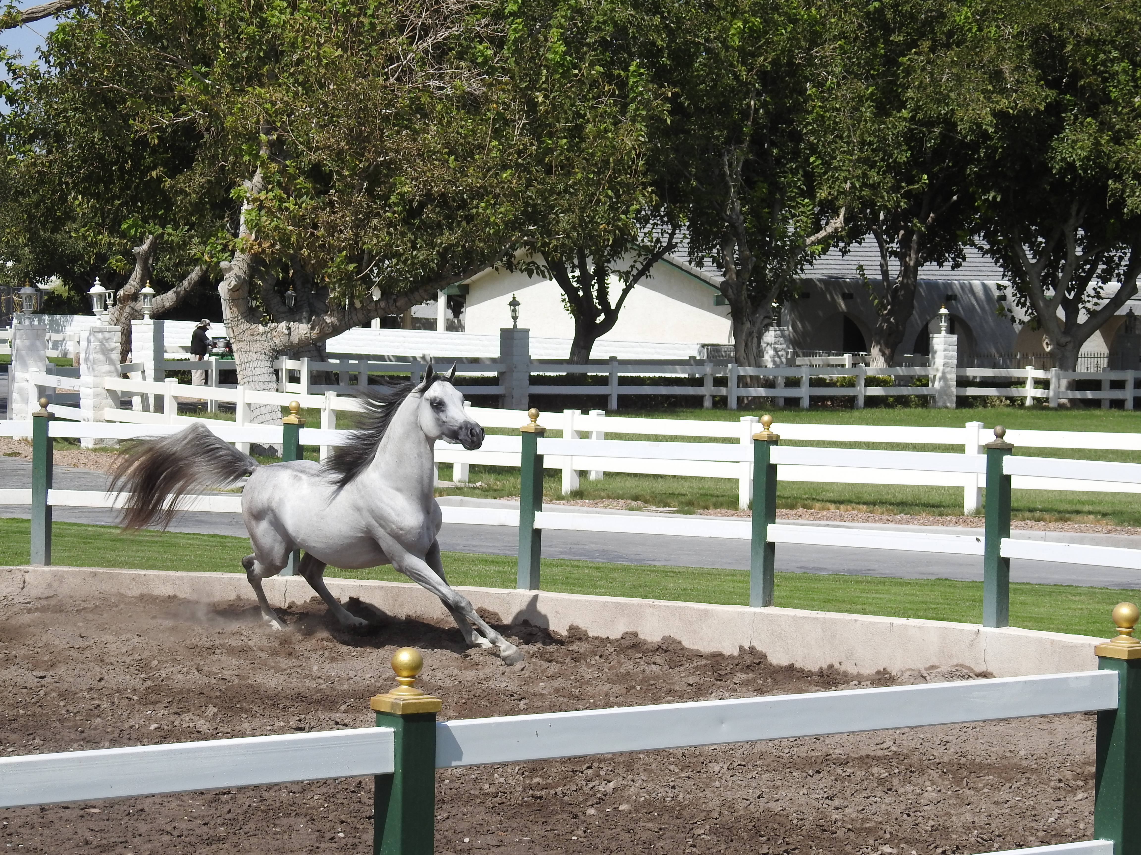 A horse at Wayne Newton's Casa de Shenandoah ranch in Las Vegas.